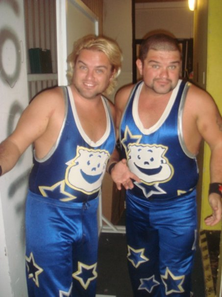 The All Knighters. Joey Knight and Robin Knightwing